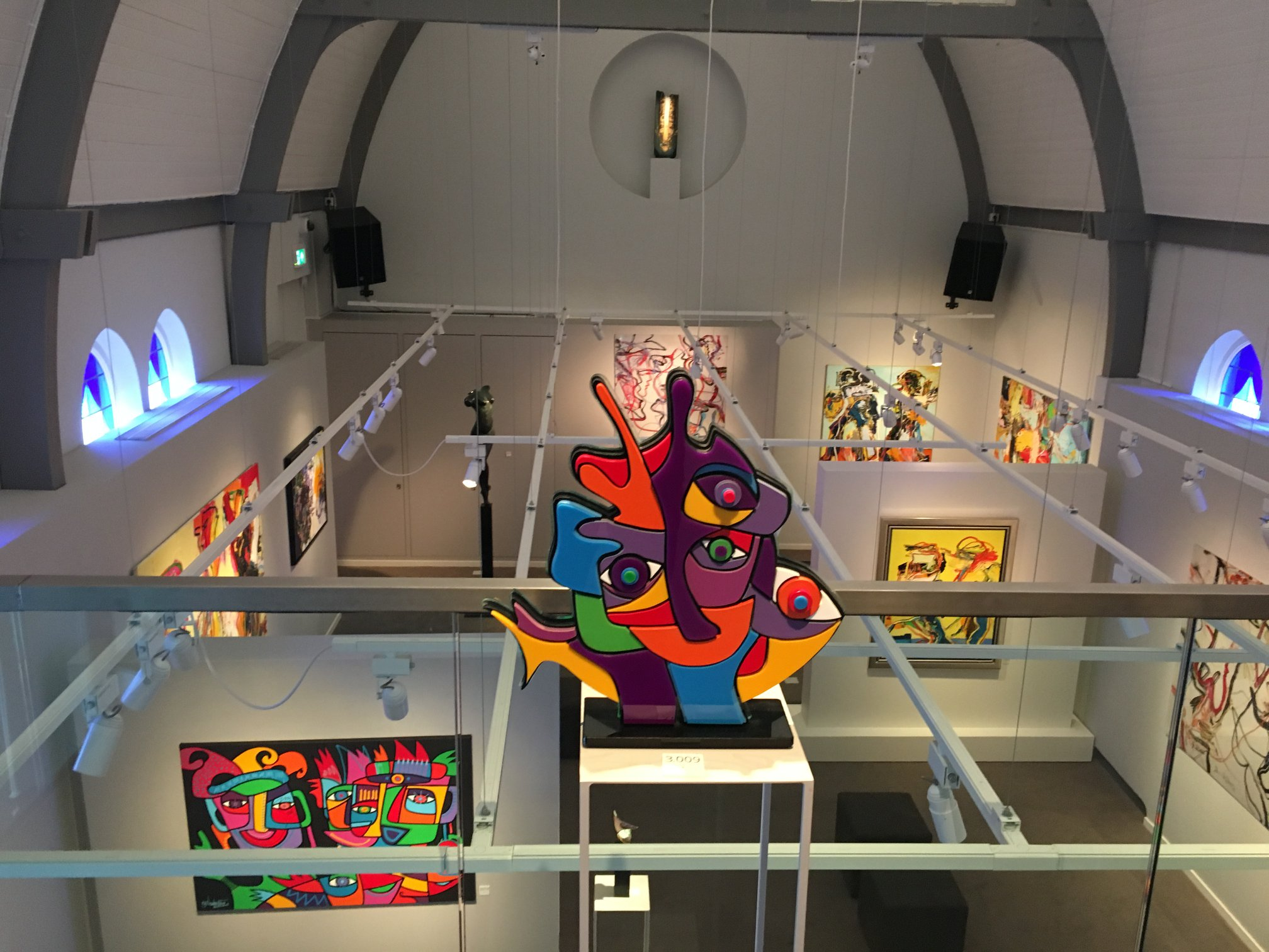 Exposition at Musiom